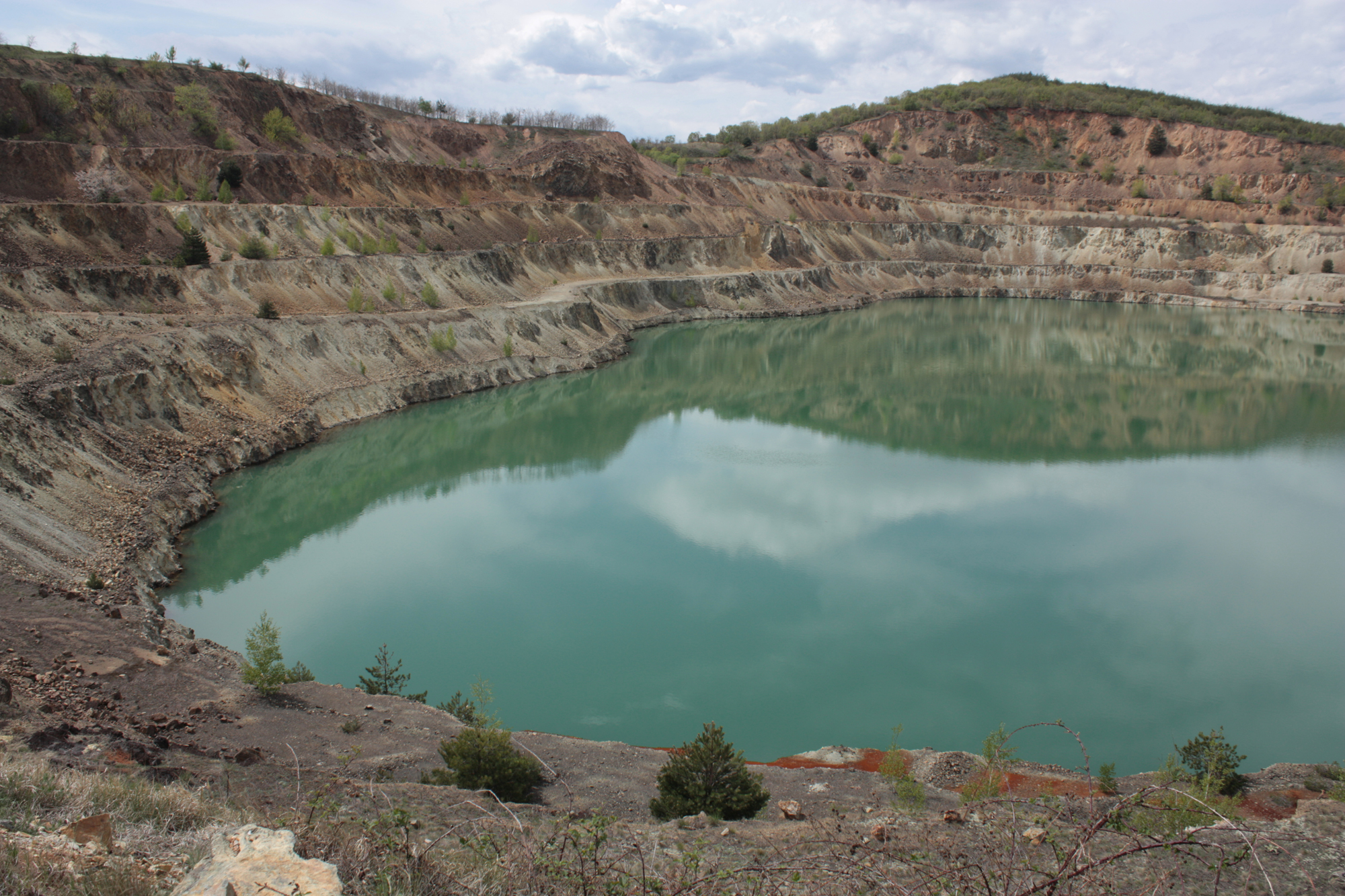 Elshitsa open-pit closed copper mine, Bulgaria